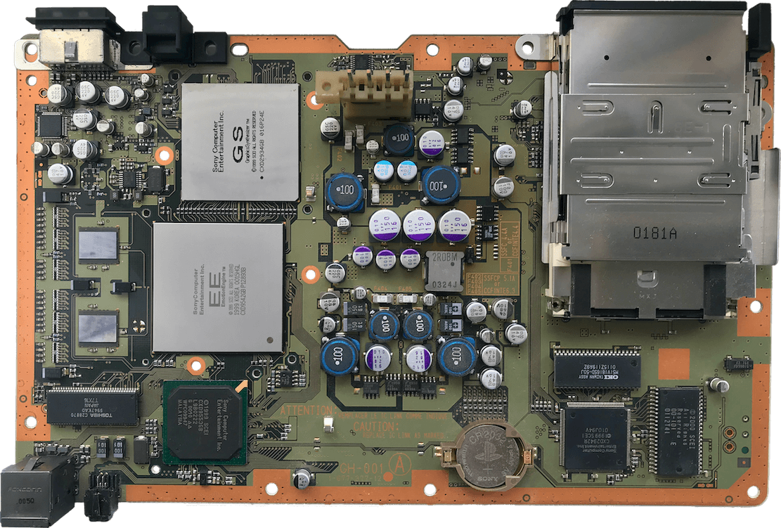 Picture of PS2 Motherboard revision 'GH-001' from model SCPH-10000 only released in Japan. Originally from